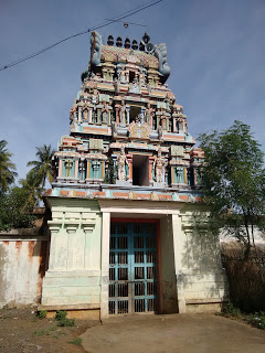 Pullamangai temple, Thanjavur district, Tamilnadu புள்ளமங்கை கோயில், தஞ்சாவூர் மாவட்டம்